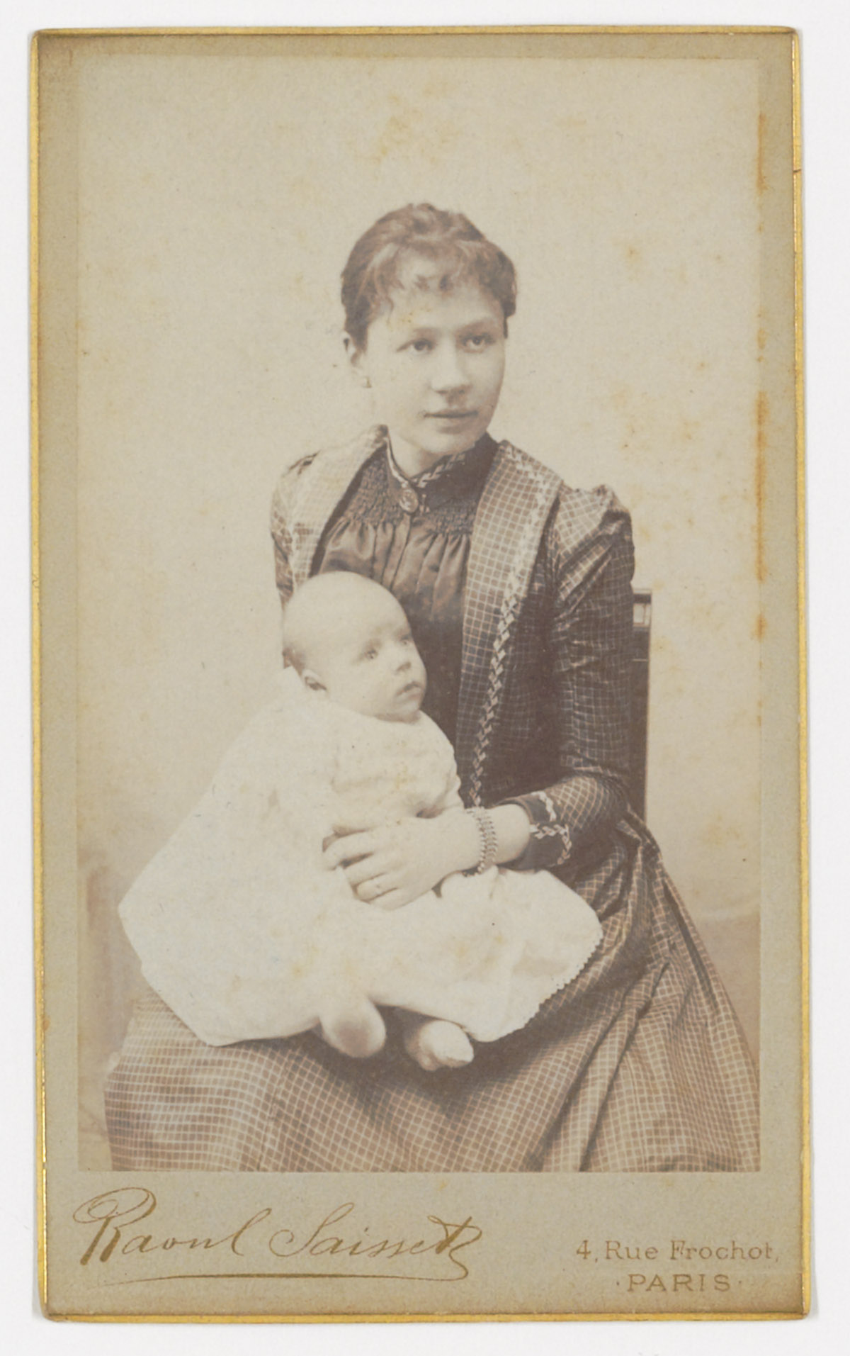 Jo Van Gogh-Bonger with her son Vincent Willem at the studio of Raoul Saisset 4 Rue Frochot Paris 1890